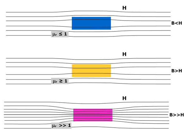 Magnetic_Permeability